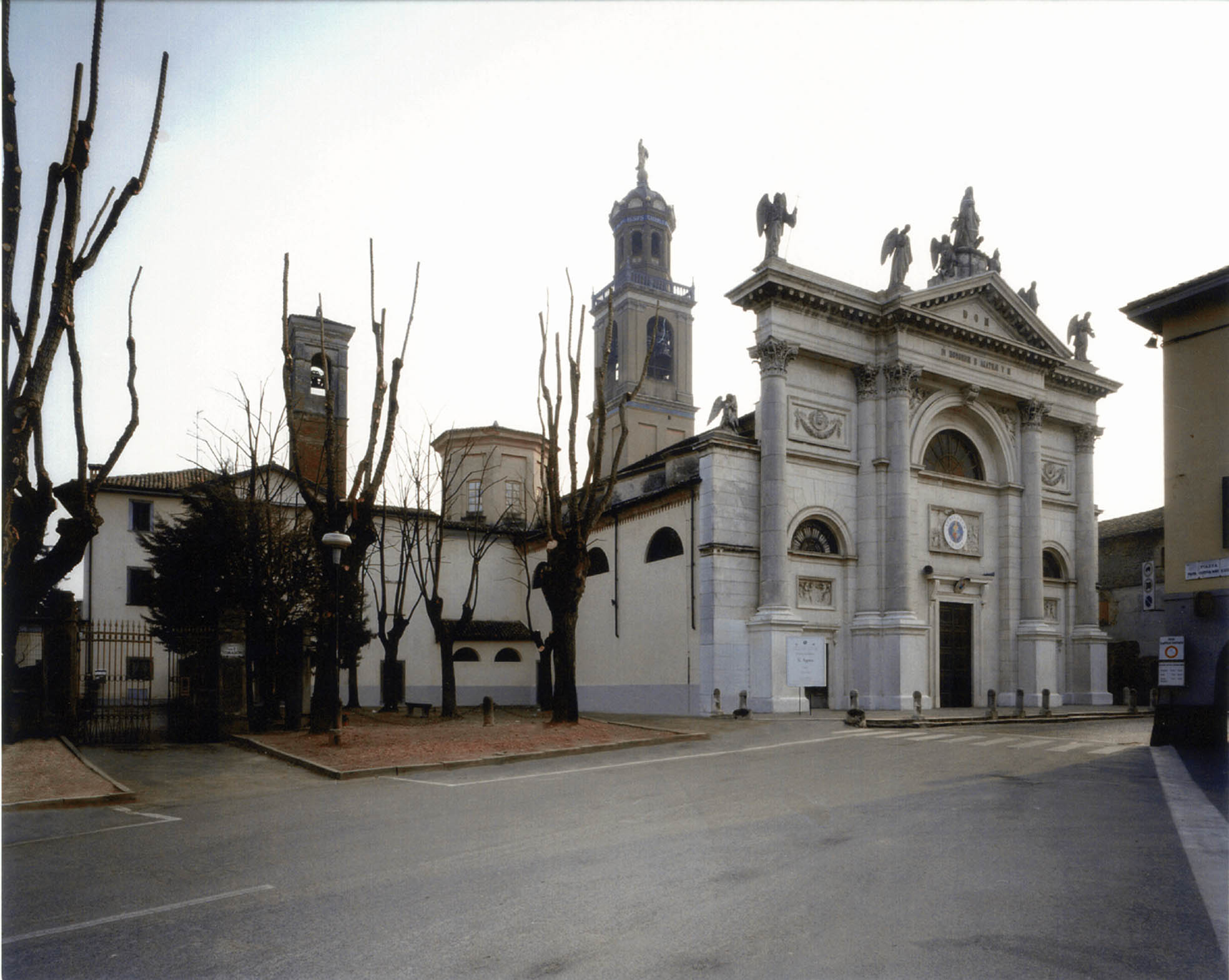 Agatha of Sicily parish church in Martinengo, Bergamo, Italy